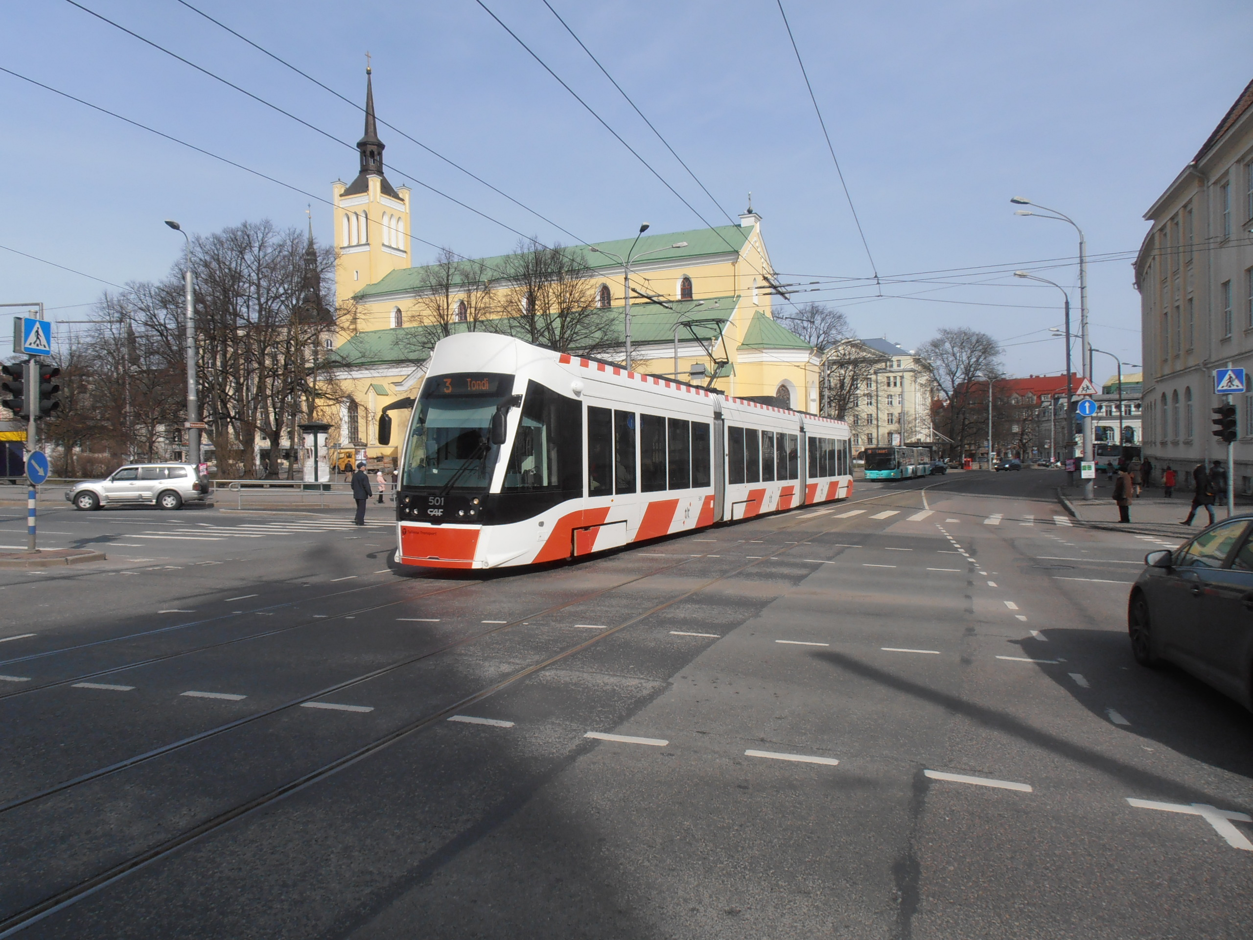 Tram 501 in front of St. John's Church in Tallinn 6 April 2015